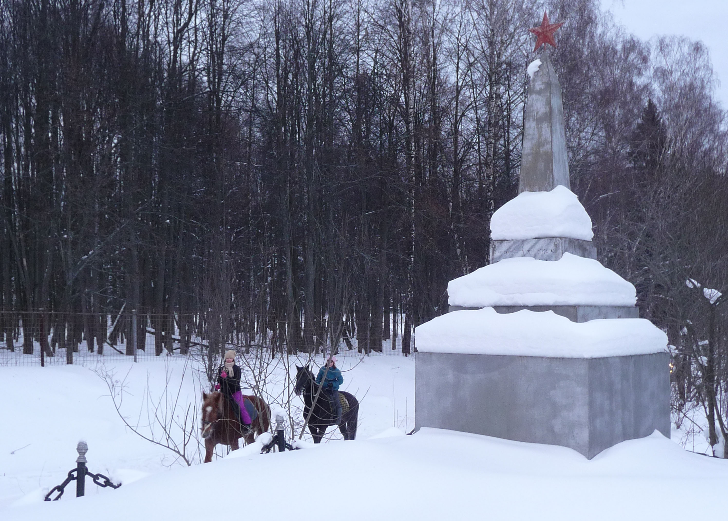 The village of Kamshilovka, Shchyolkovsky District, Moscow oblast, Russia.